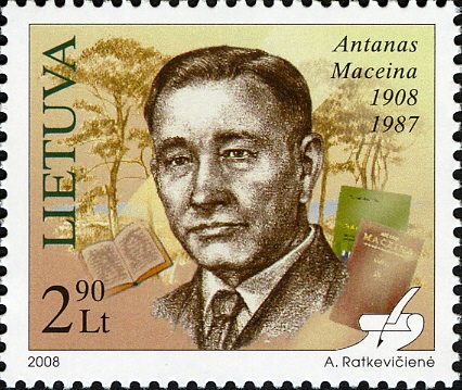 Stamps of Lithuania, 2008